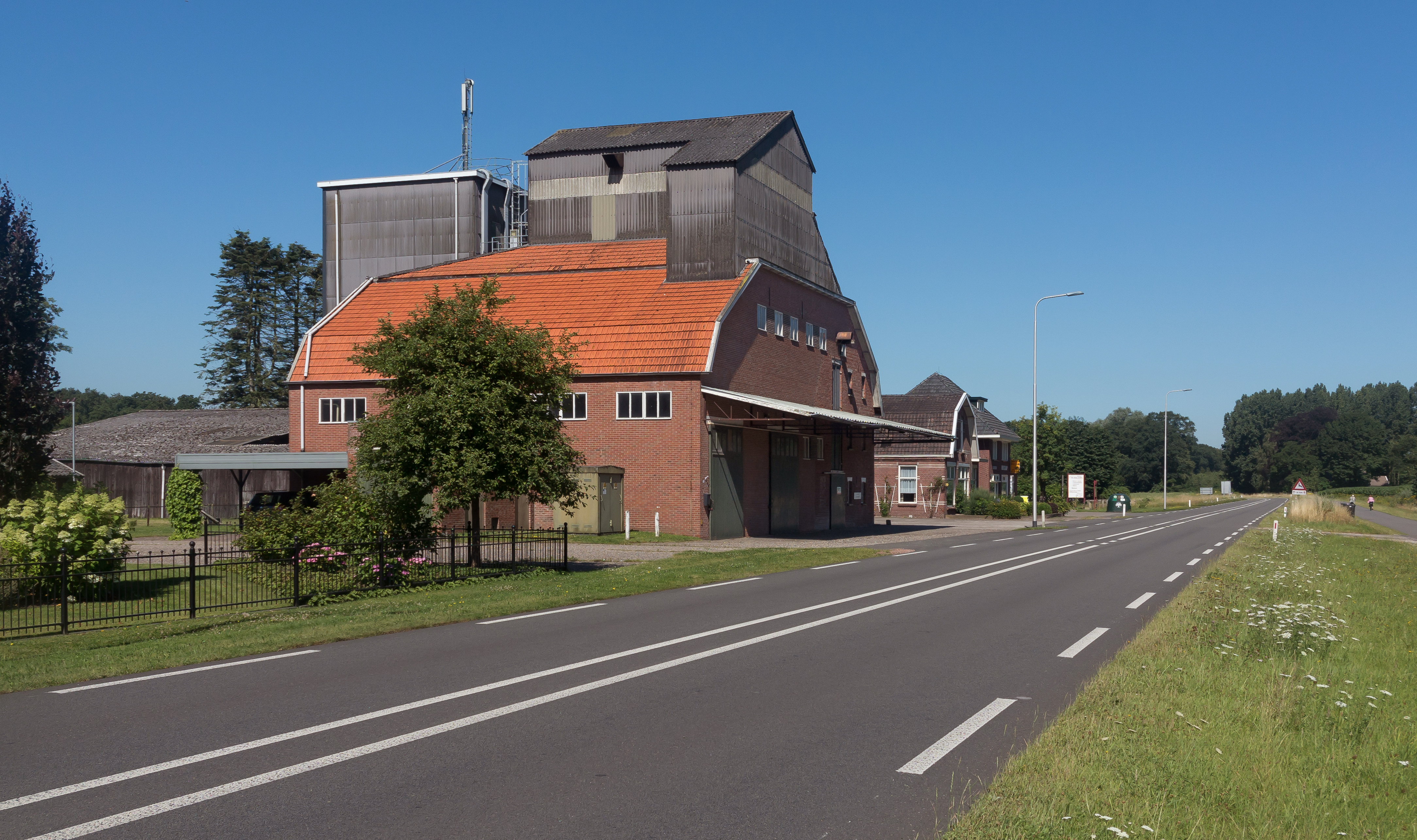 Brinkheurne, farmer house near liquor store (slijterij Huiskamp)